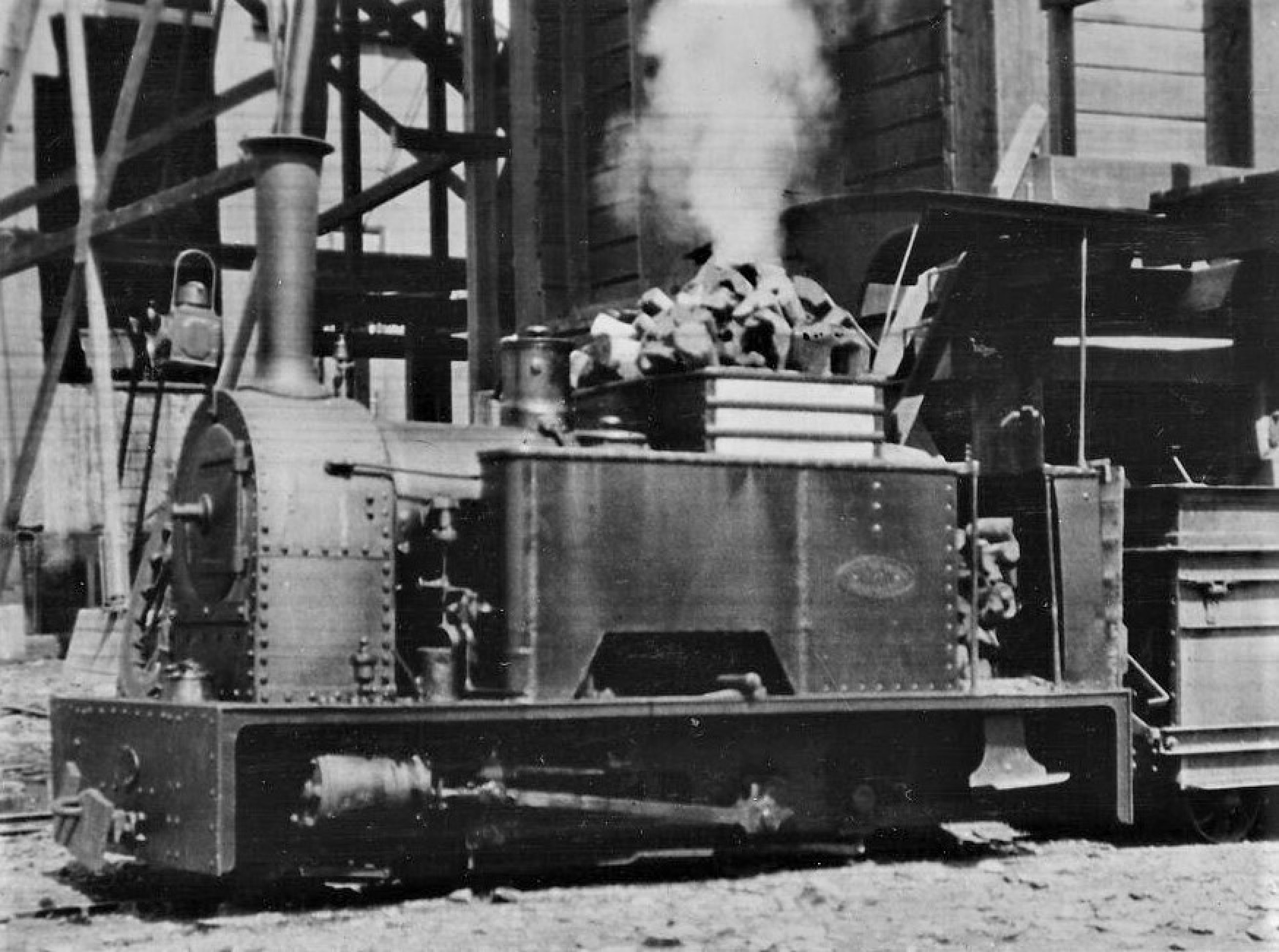 2ft gauge Kerr, Stuart and Company 0-4-0T (bn 839 of 1903), Kalgoolie, Western Australia